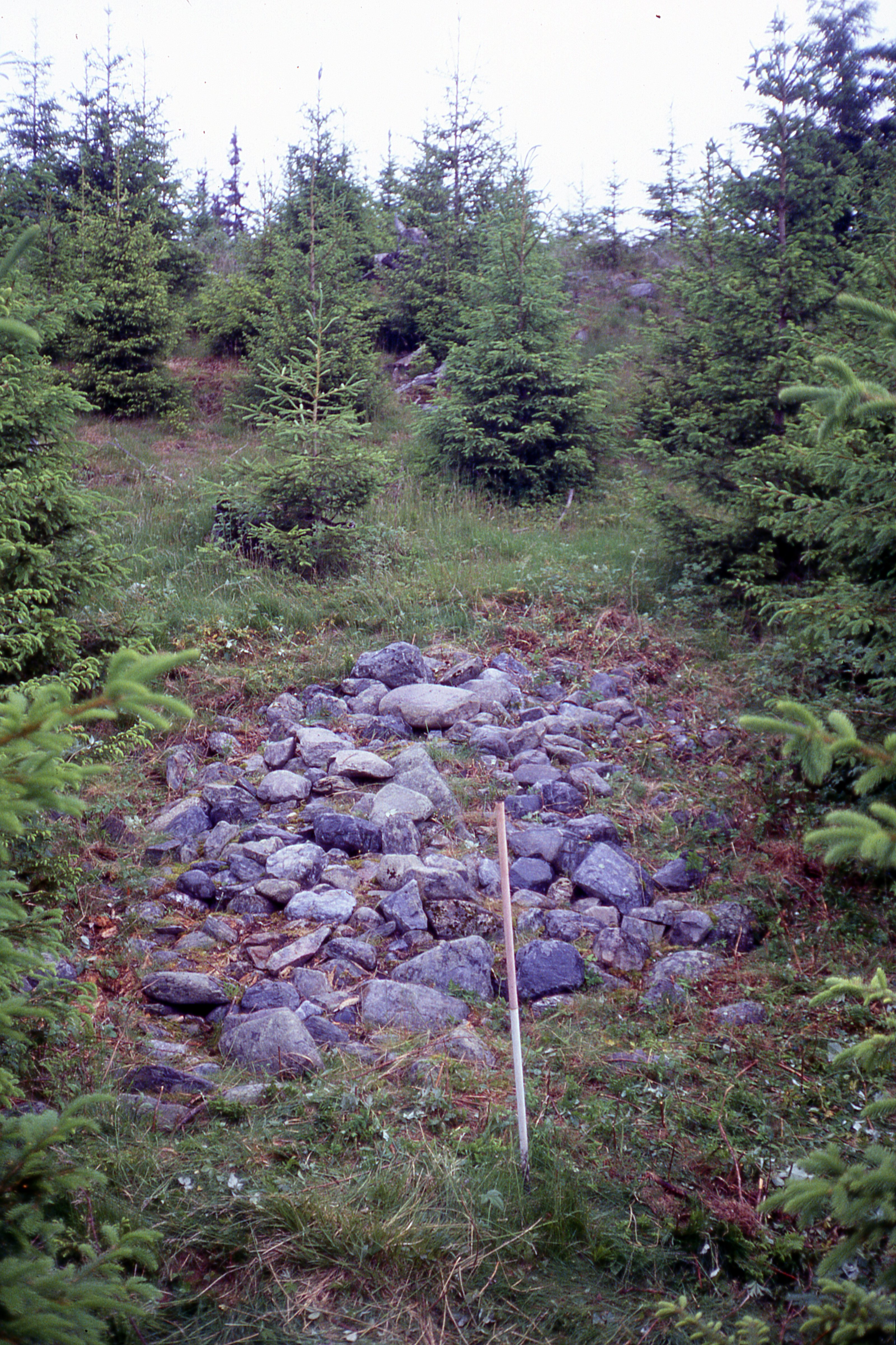 Iron Age clearance cairn from Gjøvik, Norway